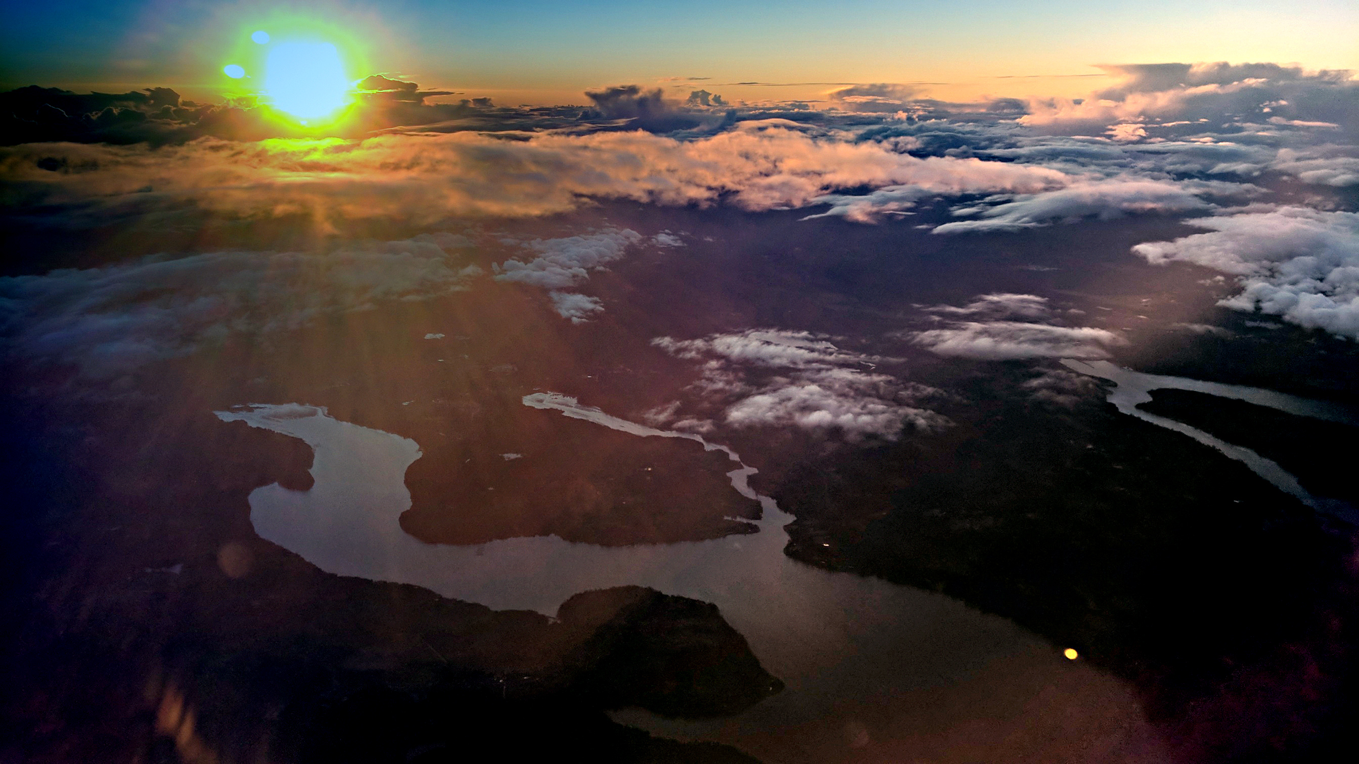 South Puget Sound bays and inlets: Totten Inlet (bottom) branches into Oyster Bay (left) and Little Skookum Inlet; Hammersley Inlet leads to Oakland Bay (right).